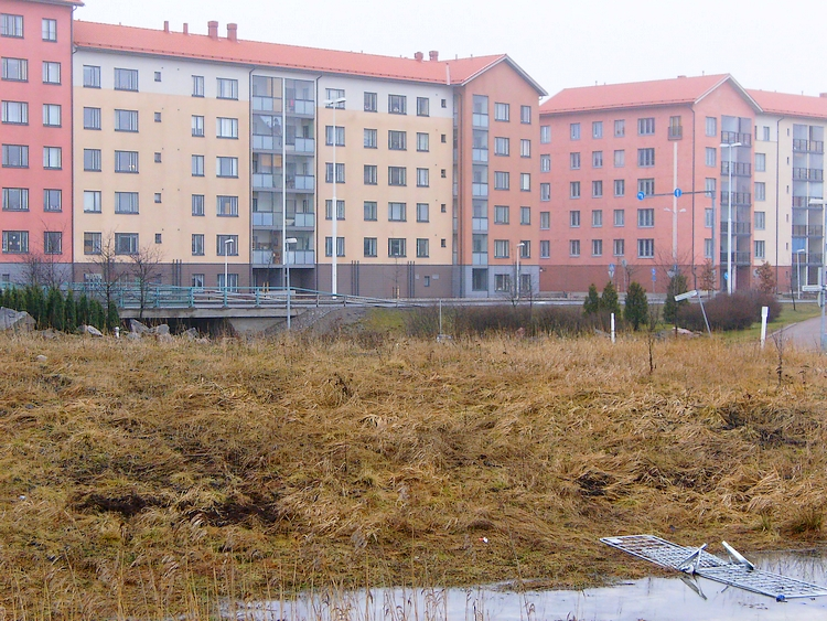 Vantaanportti in Pakkala, Vantaa, Finland